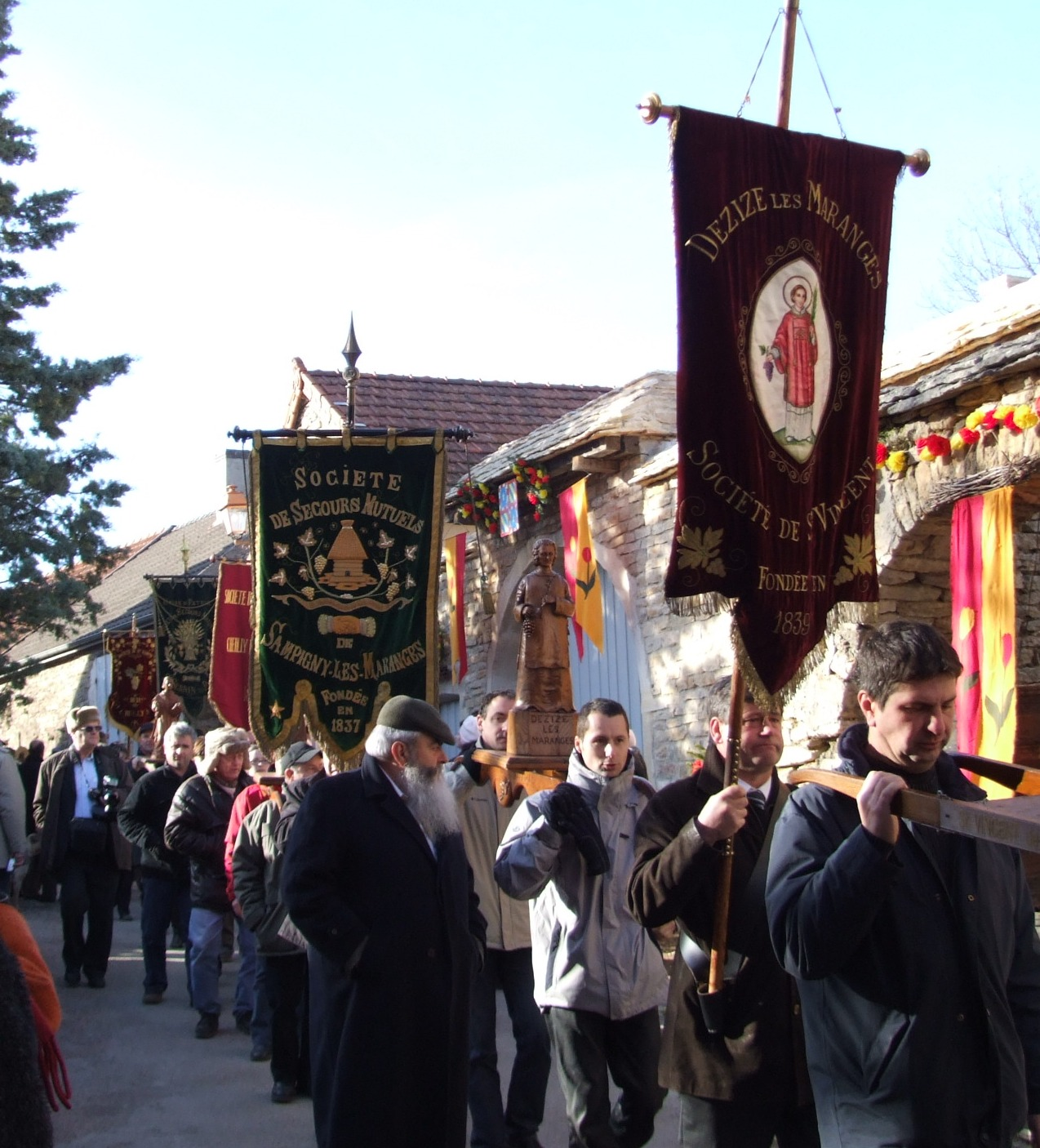 Saint-Romain, Côte-d'Or, Burgundy, FRANCE